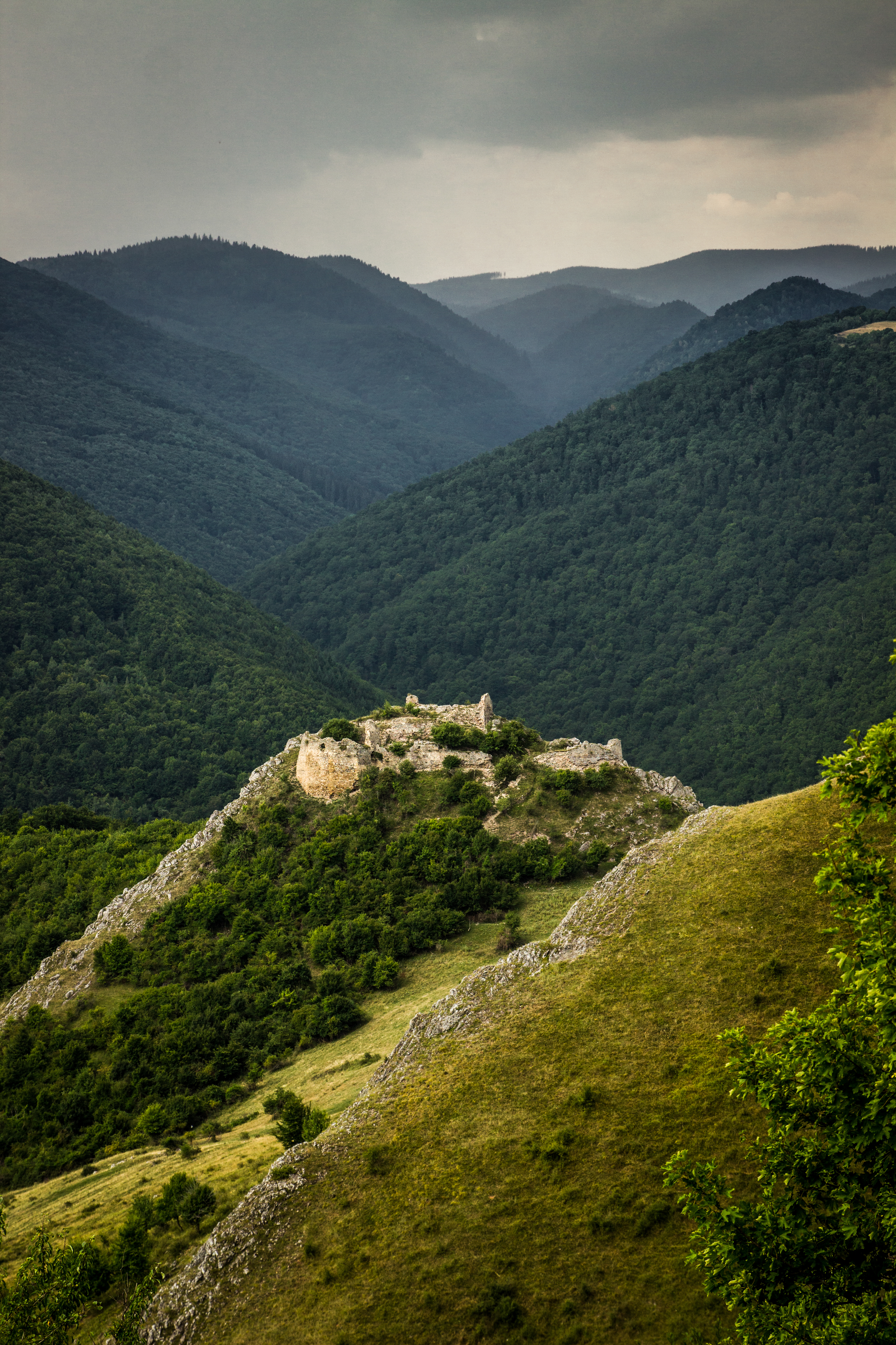 The photo is taken from the northeast ridge where you have an overview of the fortress, its location and the mountains localities that guards the distances. 01